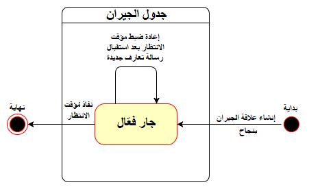 Neighbor lifecycle according to EIGRP.